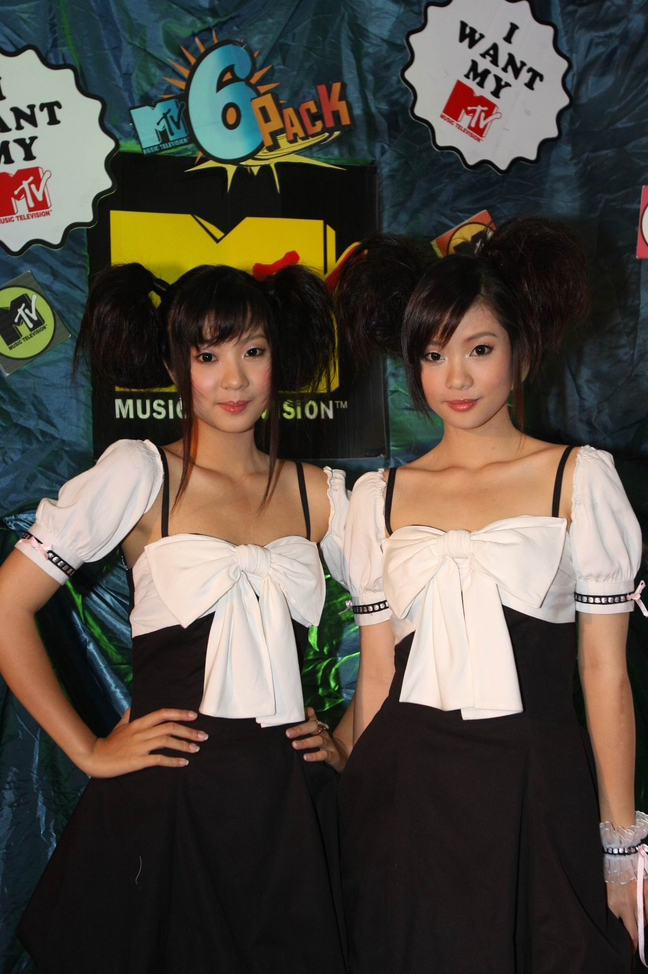 Neko Jump (Band from Thailand)